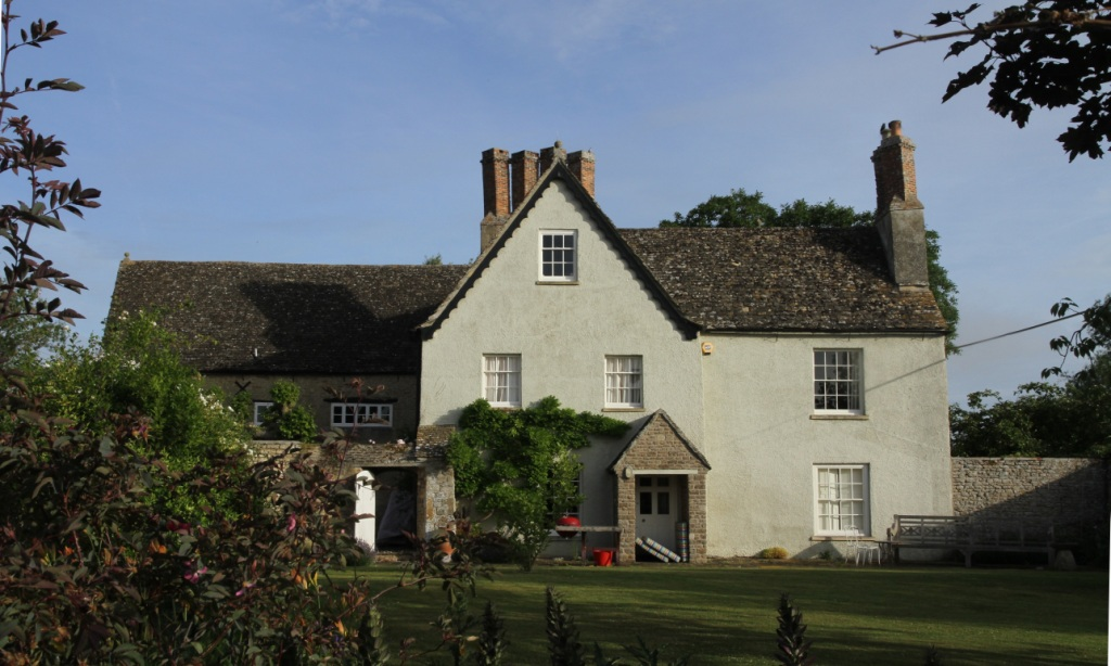 The manor house at Lyford, Oxfordshire (formerly Berkshire), seen from the southeast